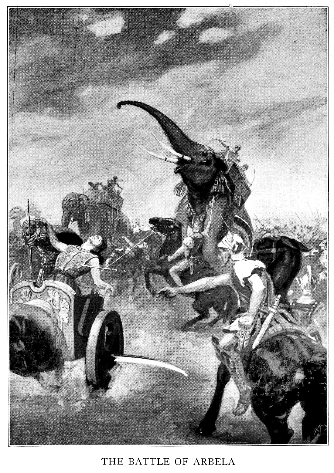 Scene of the Battle of Arbela